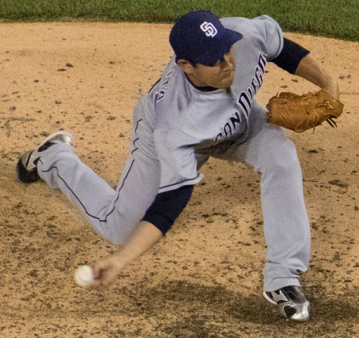 Kazuhisa Makita